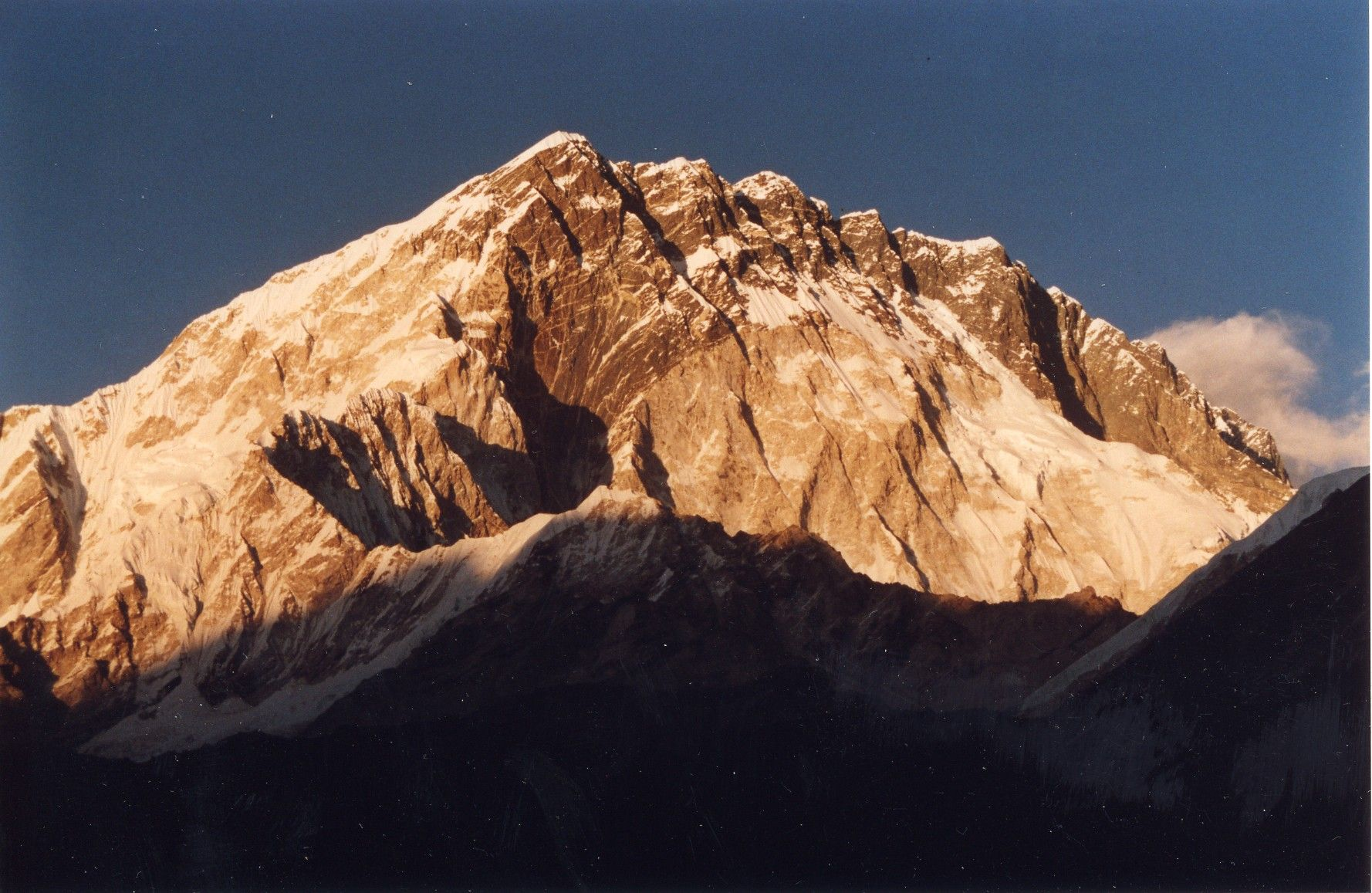 Nuptse, view from Lobuche